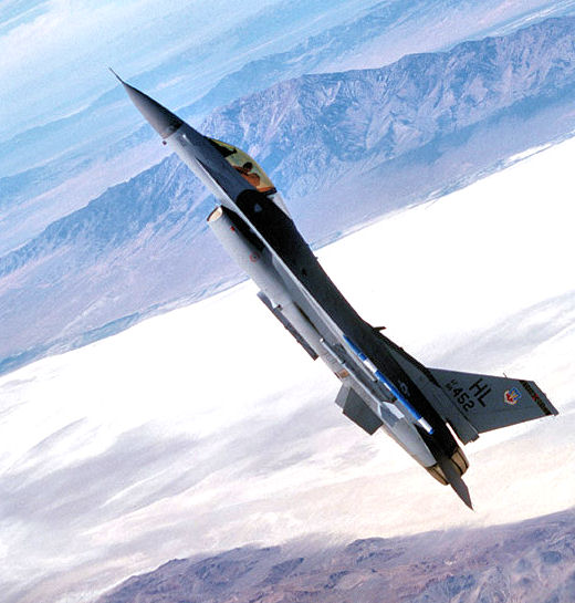 421st Fighter Squadron General Dynamics F-16C Block 40C Fighting Falcon 88-0452